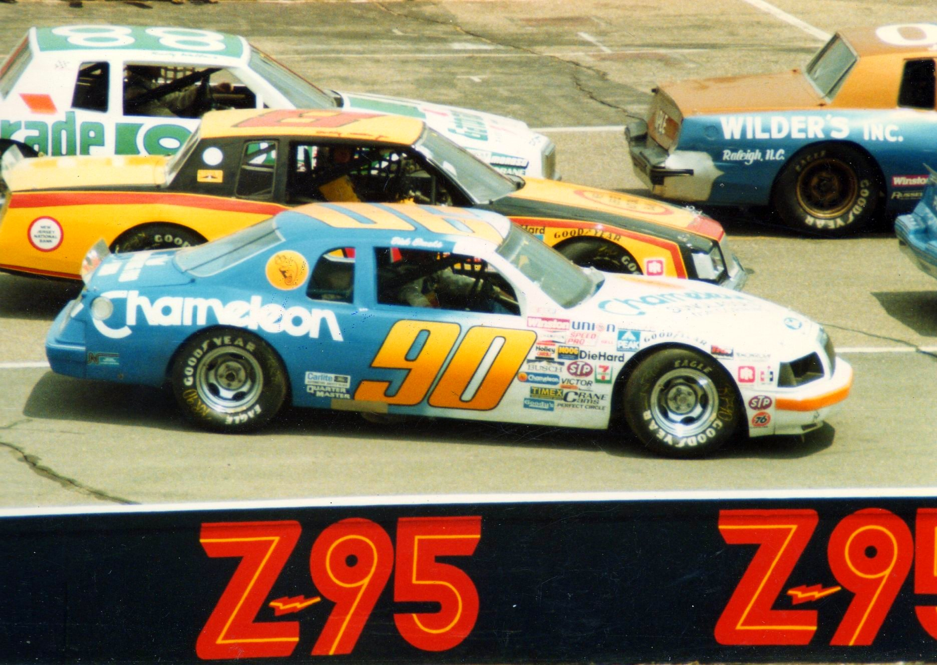 1984 NASCAR cars at Pocono in pit lane, including #90 Dick Brooks.